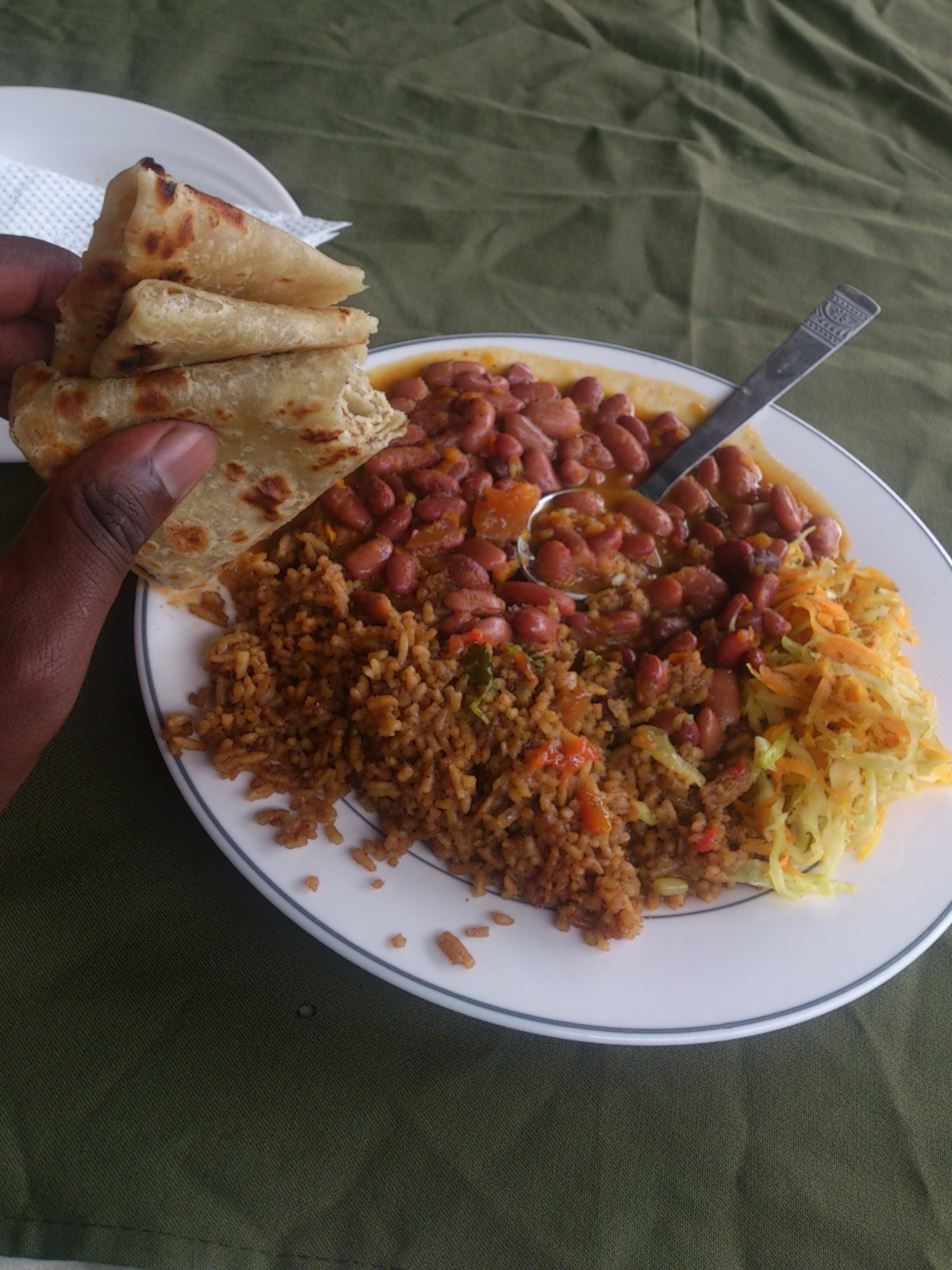 pilau, beans stew and chapati This is an image of food from Kenya